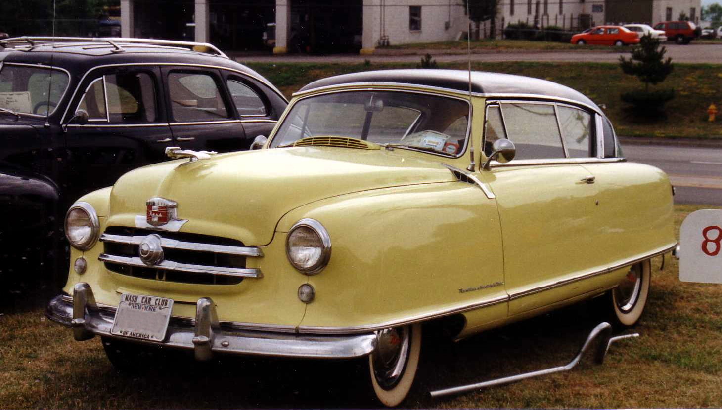 1951 Nash Rambler "Country Club" two-door hardtop (coupe). A compact automobile finished in yellow with a black top.